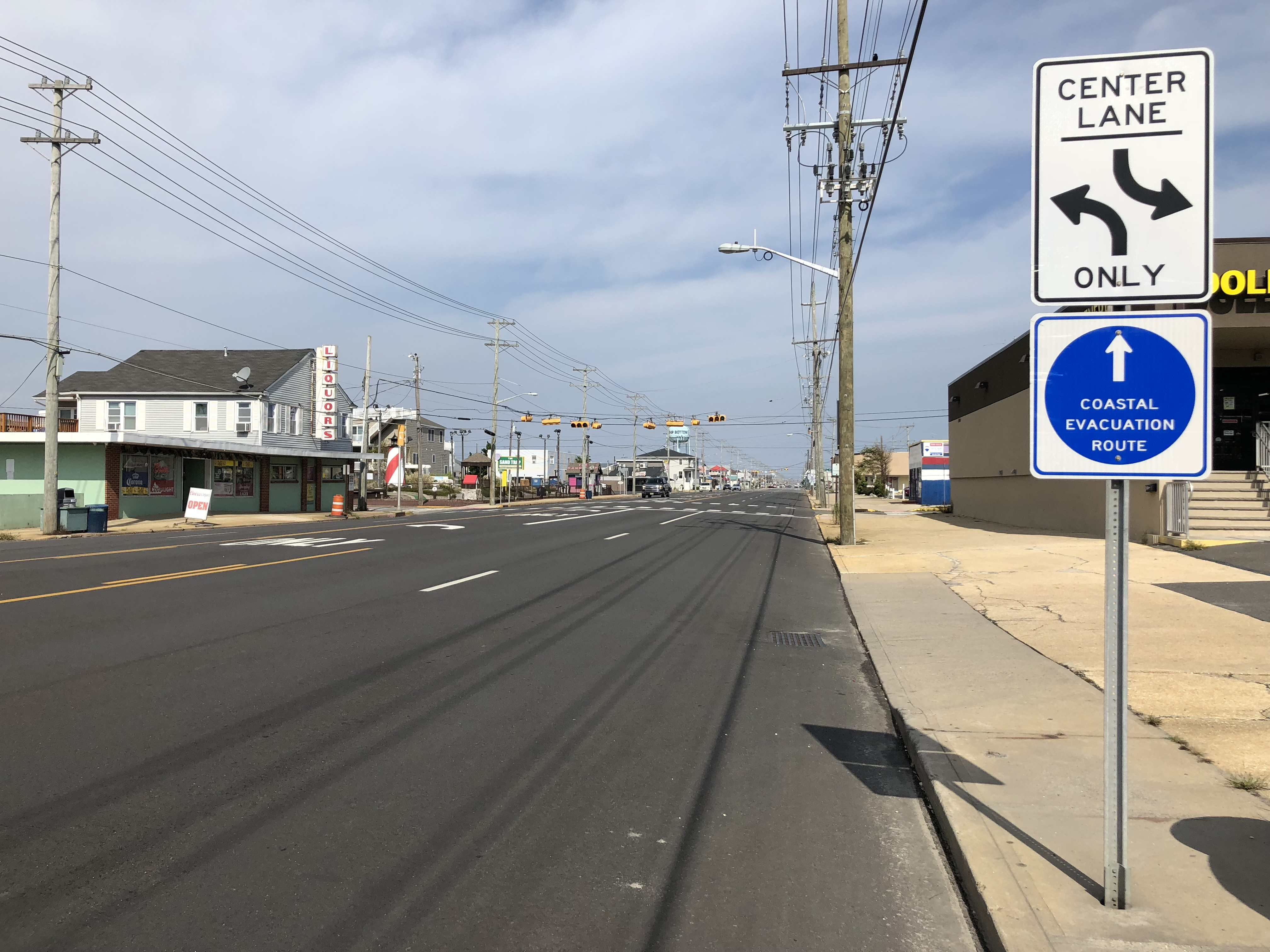 View north along Ocean County Route 607 (Long Beach Boulevard) at 25th Street in Ship Bottom, Ocean County, New Jersey